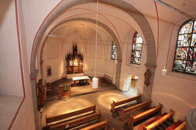 ehemalige Pfarrkirche Alt-St. Ulrich in Frechen-Buschbell This is a photograph of an architectural monument. 18